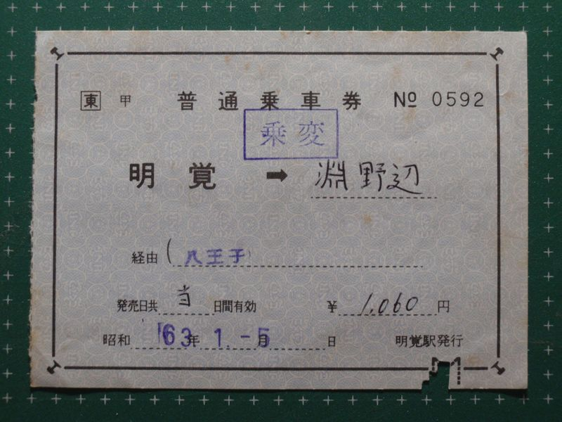 Ticket From Myokaku to Fuchinobe